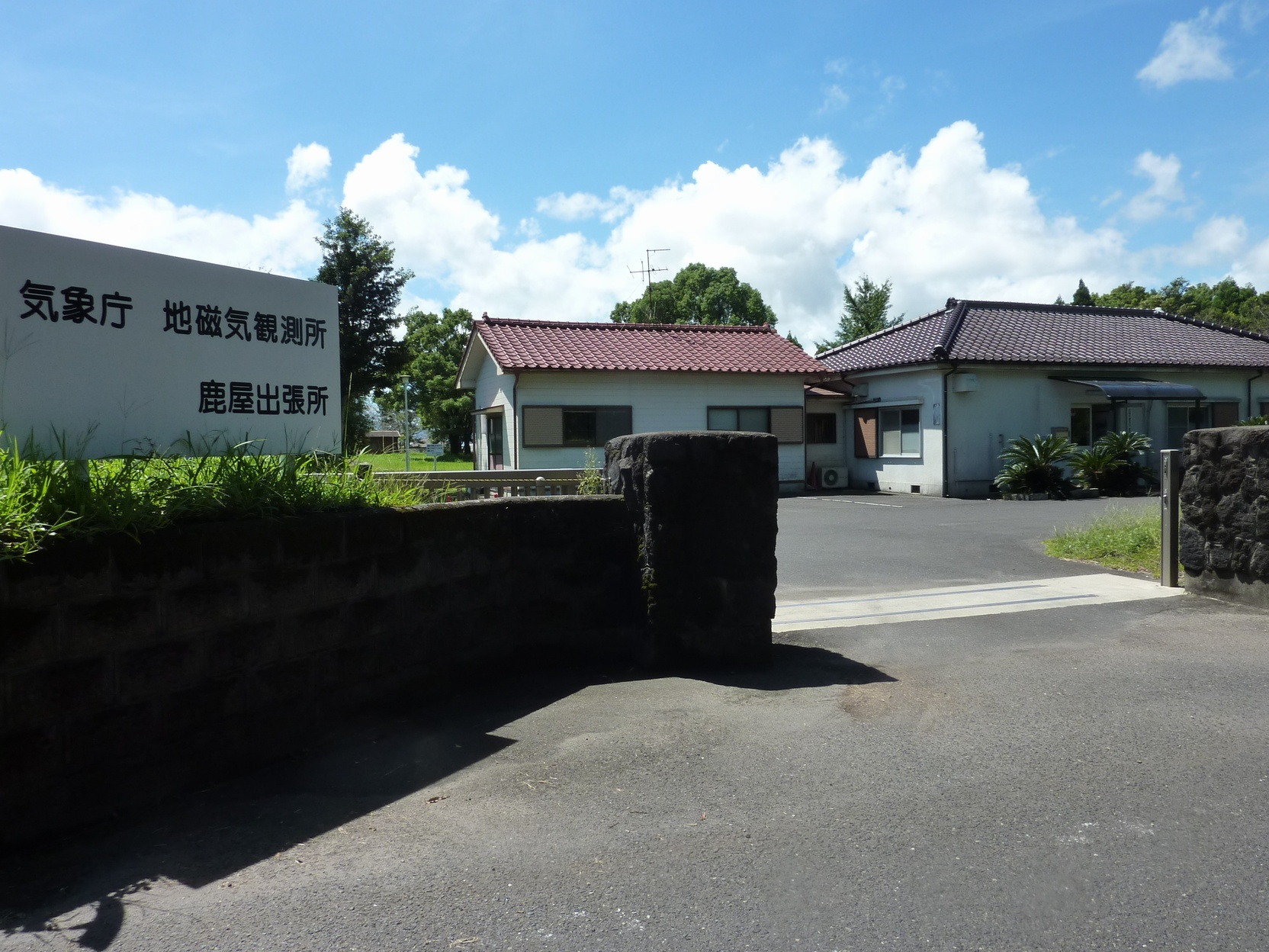 Japan Meteorological Agency - Kakioka Magnetic Observatory Kanoya Branch (Kanoya City, Kagoshima, Japan)